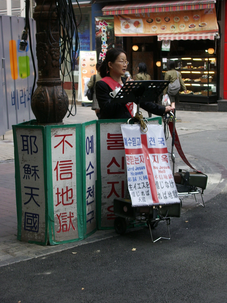 A Protestant Christian missionary in Seoul, South Korea.